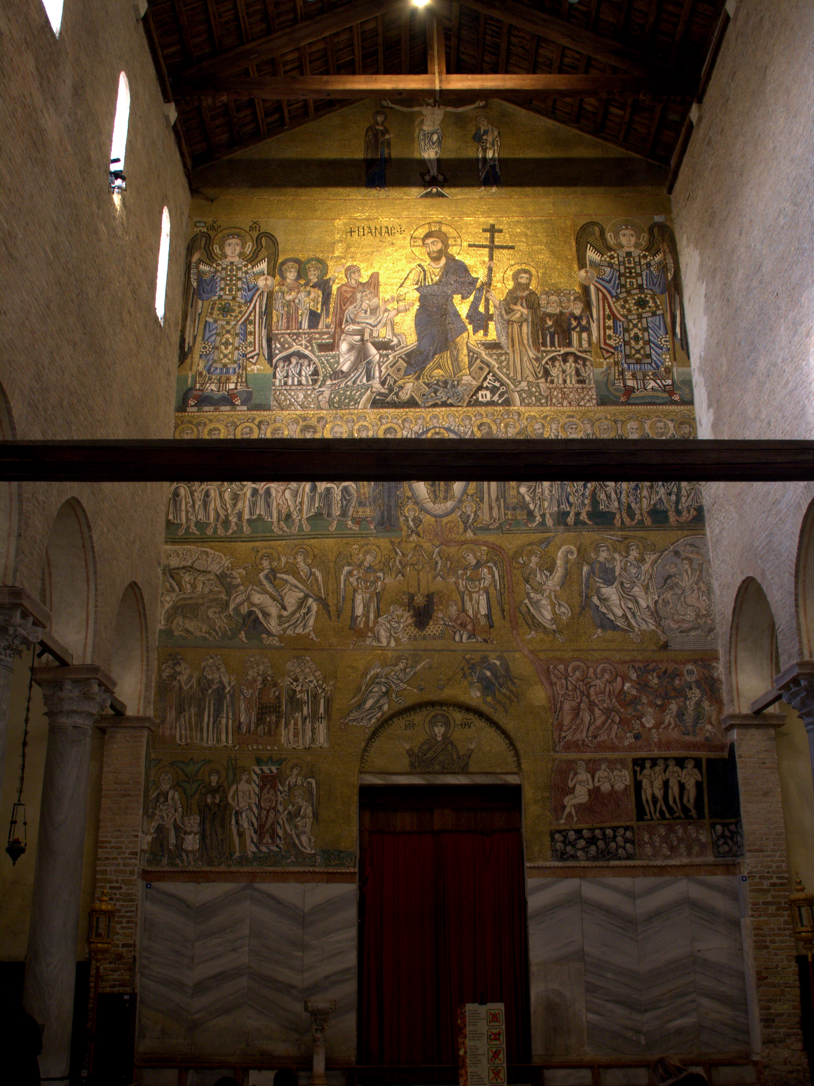 Last Judgement. Santa Maria Assunta. Torcello